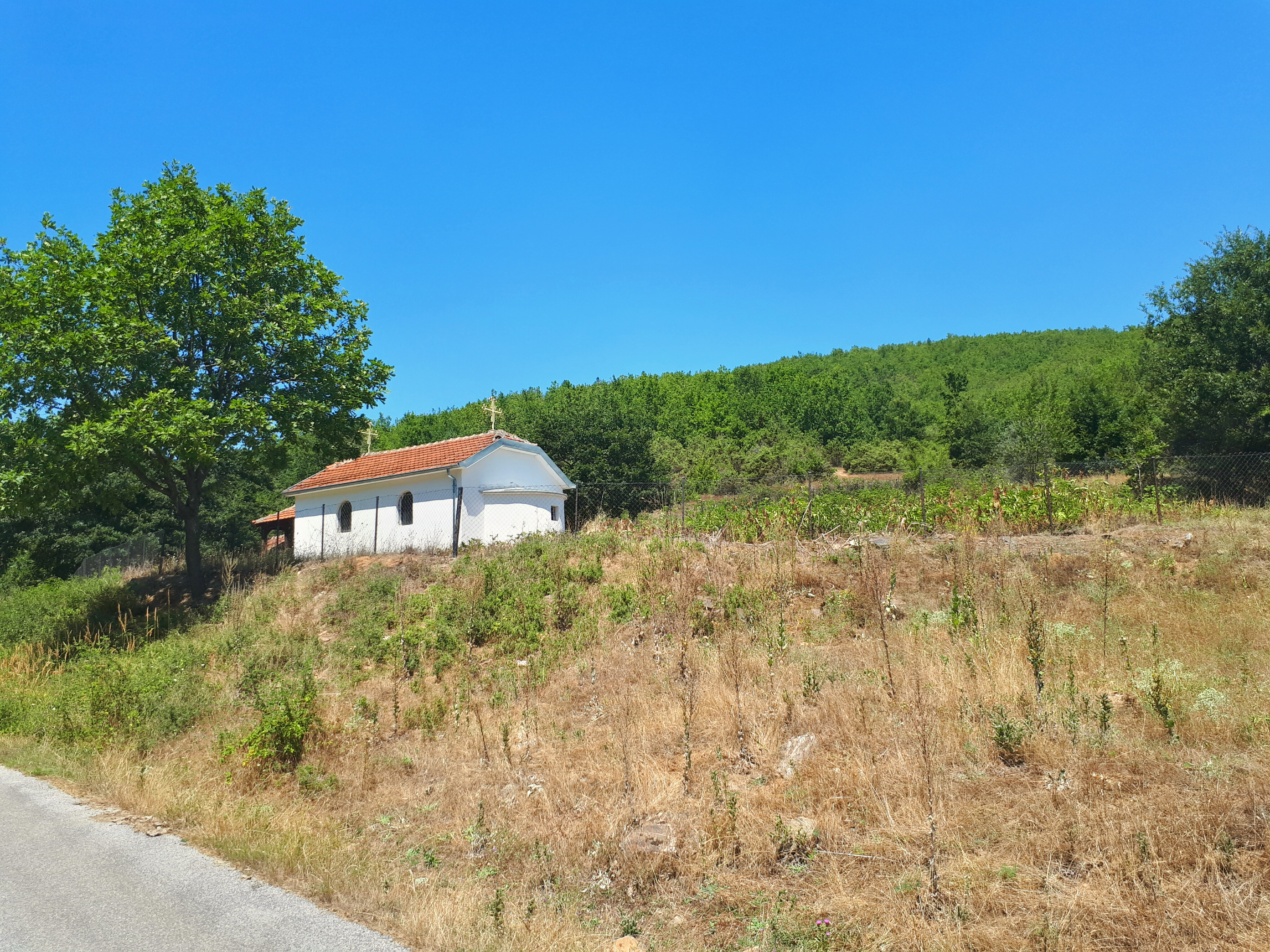 Part of the Veloexpedition in 2017